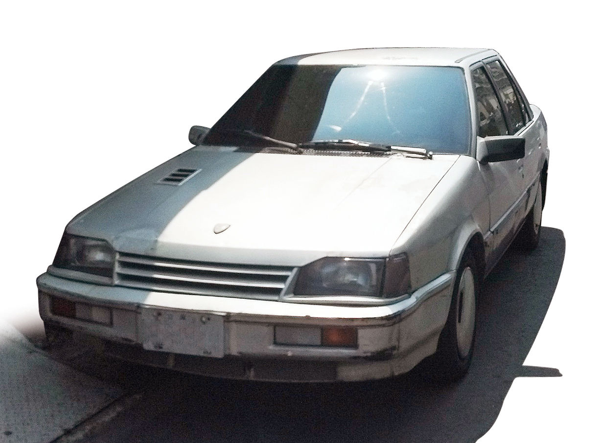 Feeling 101 front picture, made by Taiwan Yulon Motor